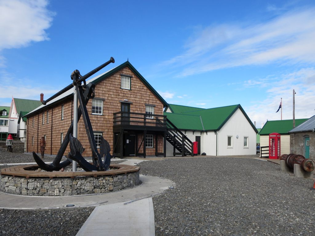 In 2014 the Falkland Islands Museum moved to the historic Dockyard (1844) in Stanley.